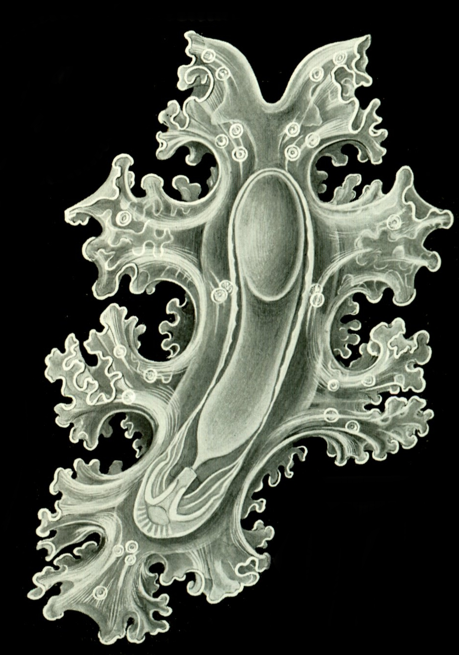 Haeckel Amphoridea-12. See here for index to numbers.